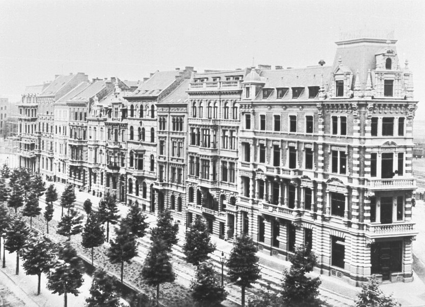 Hansaring - Ostseite (um 1886)